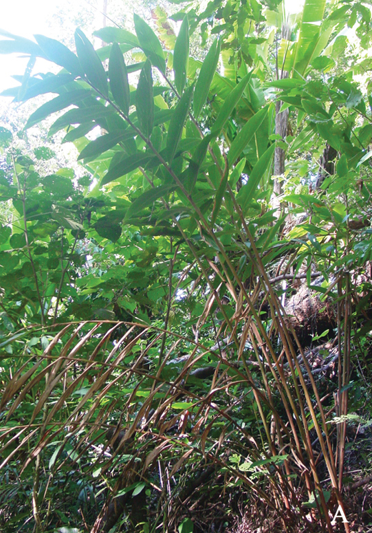 Amomum nilgiricum, habit